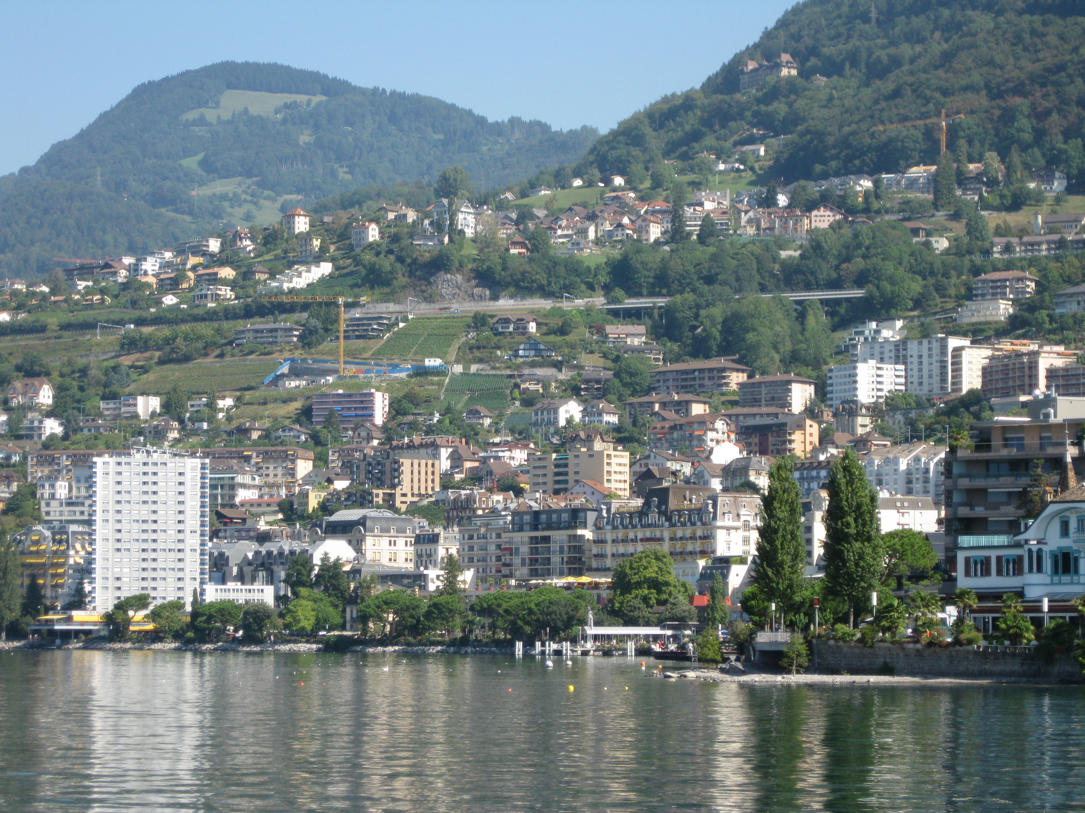 Around the lake of Geneva, Switzerland / France. Location see geotag.